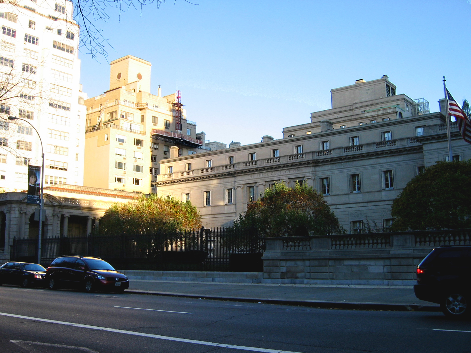 Frick Collection, located on the Upper East Side in New York City. Photo taken by Kmf164 on November 13, 2005.